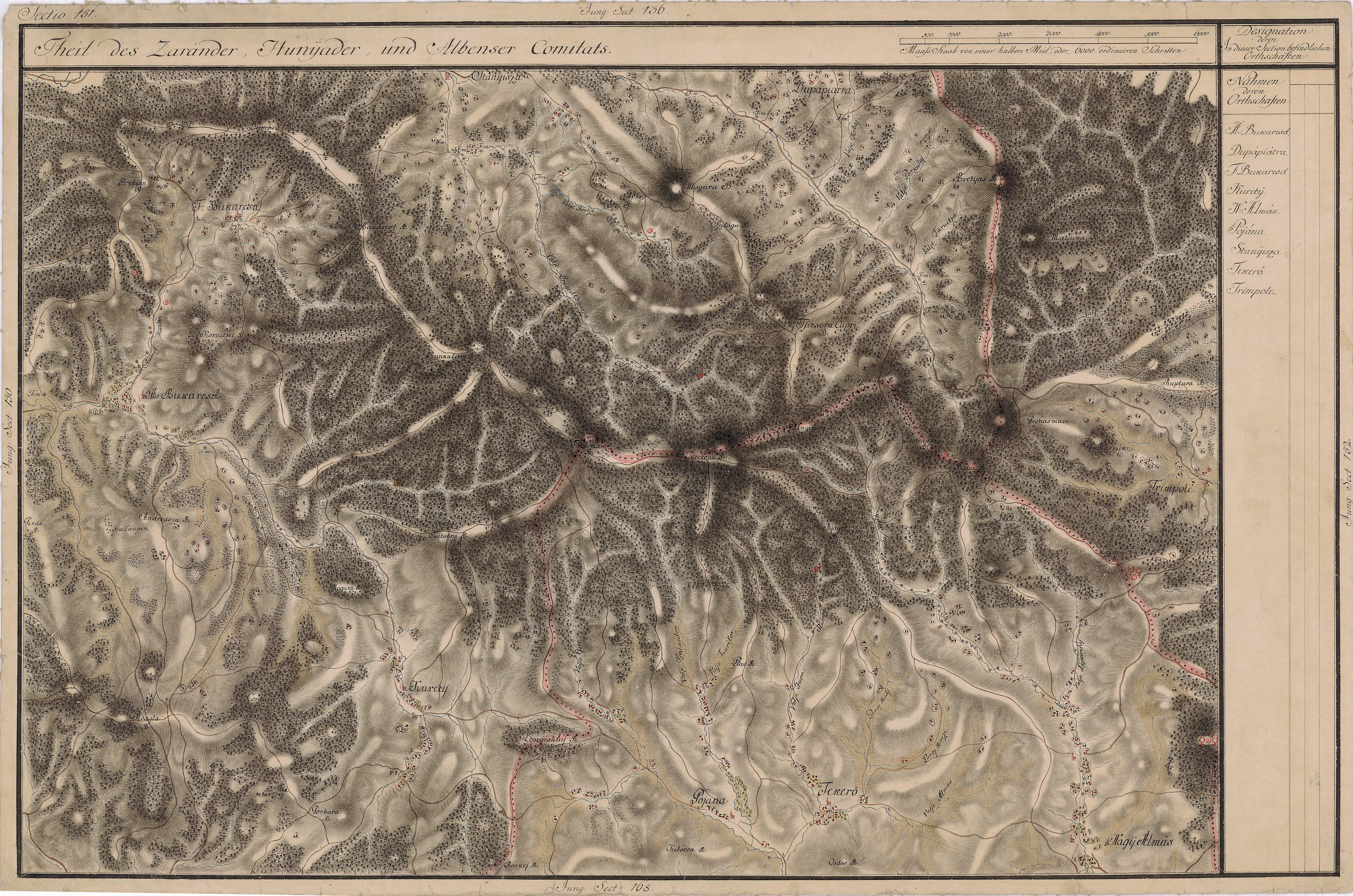 Grand Duchy of Transylvania, 1769-1773. Josephinische Landaufnahme pg.151